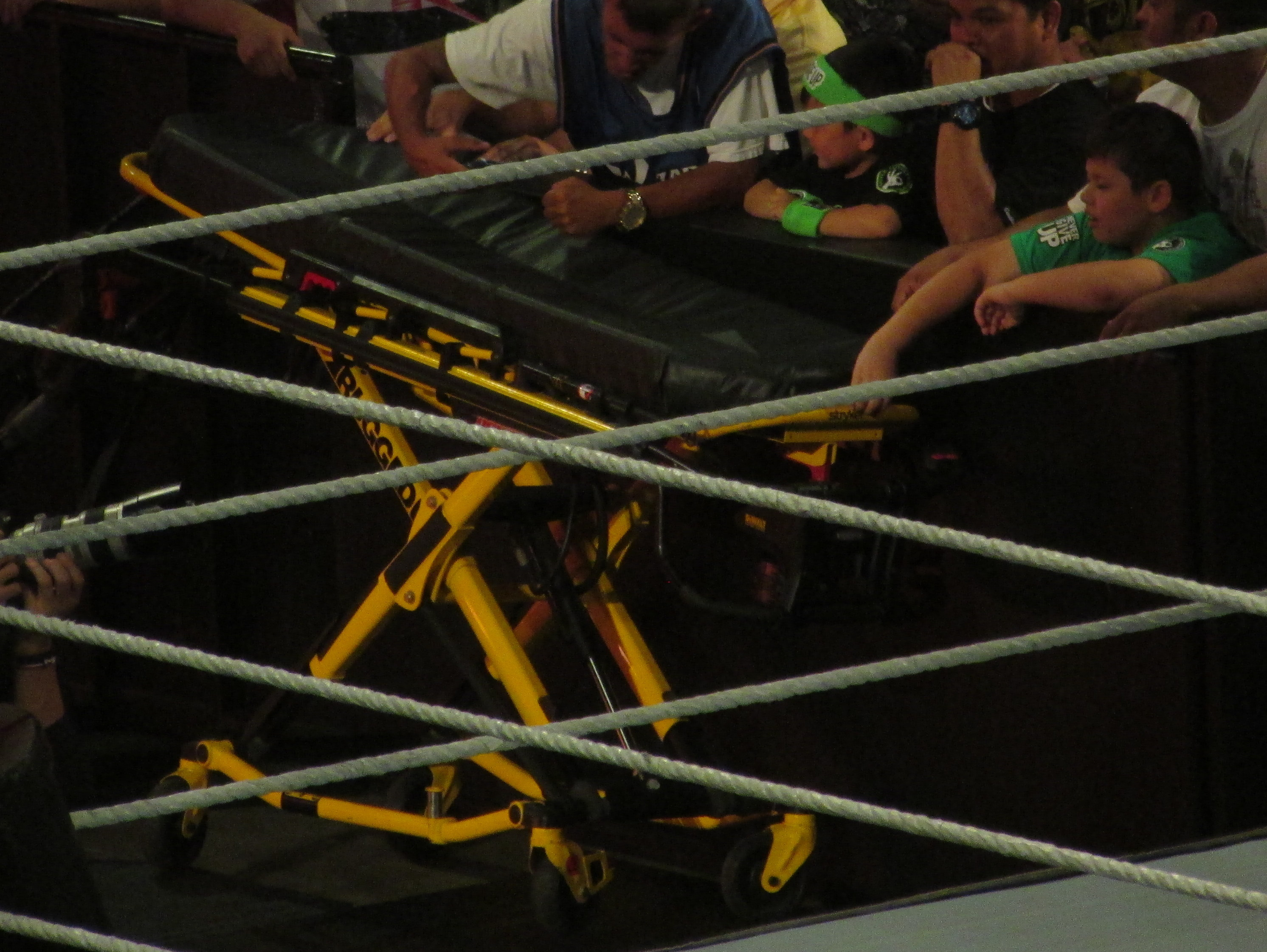 A Stretcher at ringside for a strecther match in June 2014. Cropped from original.